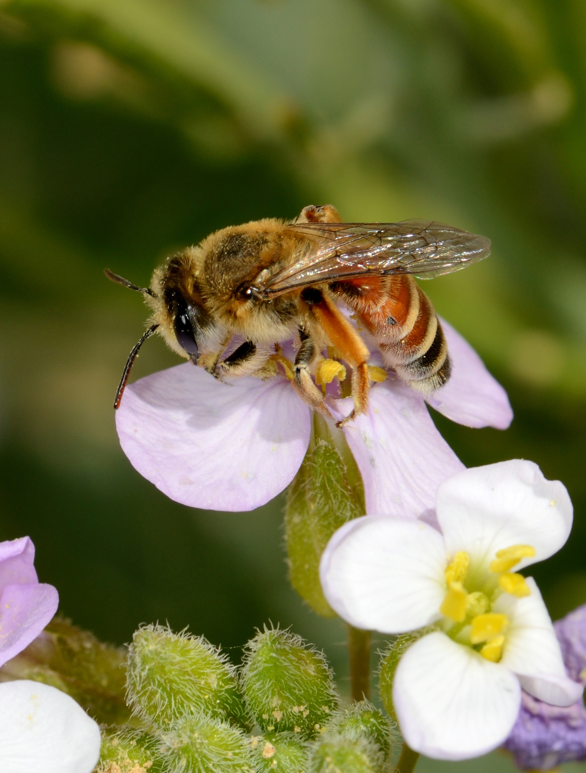 Andrena (Suandrena) savignyi Spinola, 1838, female foraging on Diplotaxis acris (Forssk.) Boiss., Ovda Valley, Negev, Israel, February 8, 2013.